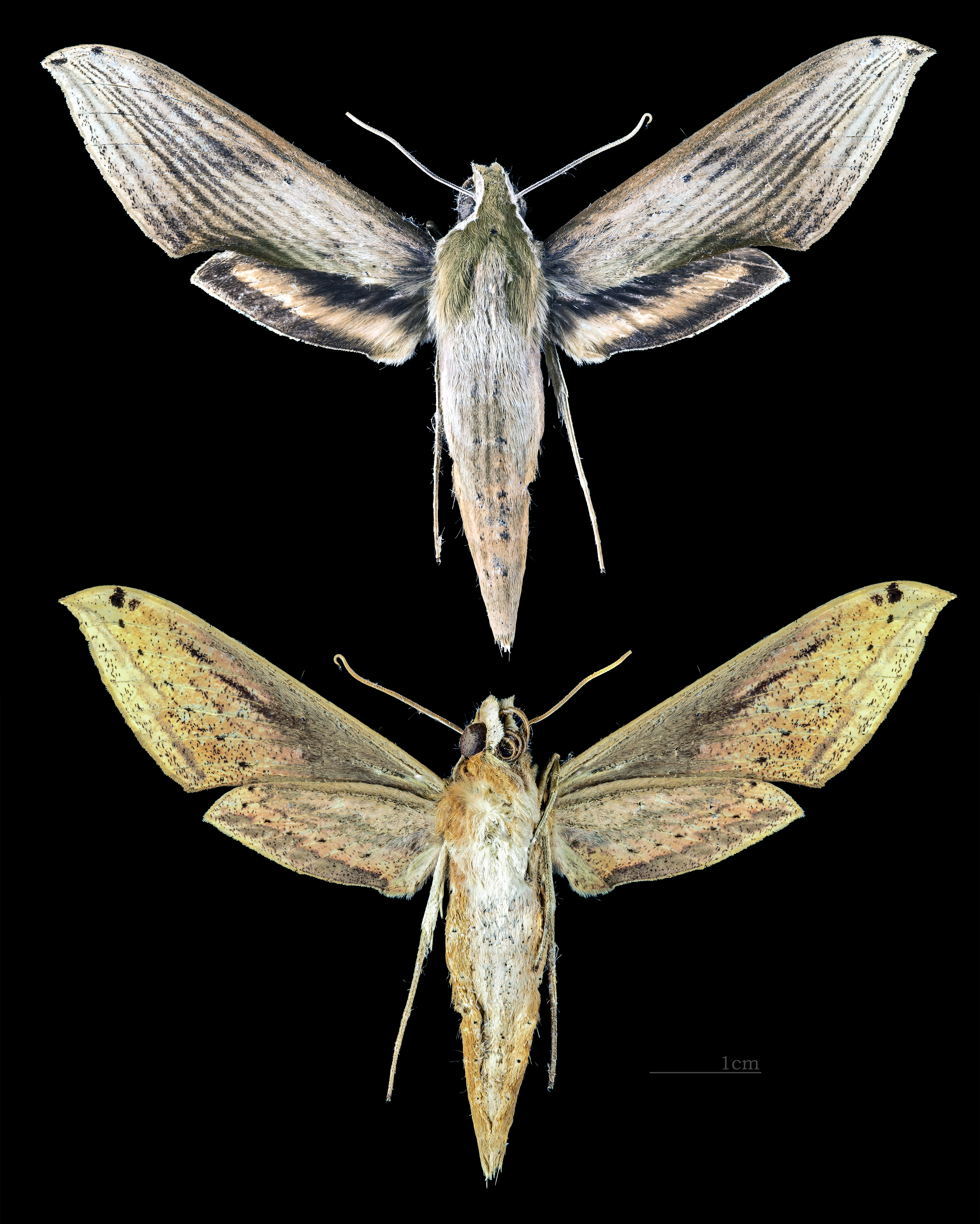 Xylophanes libya - Two views of same specimen